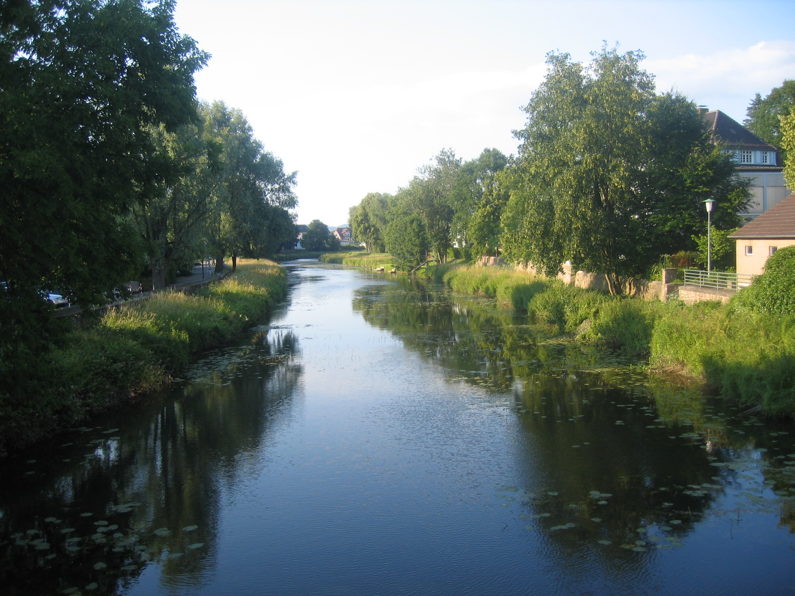 Else River in Bünde, District of Herford, North Rhine-Westphalia, Germany.